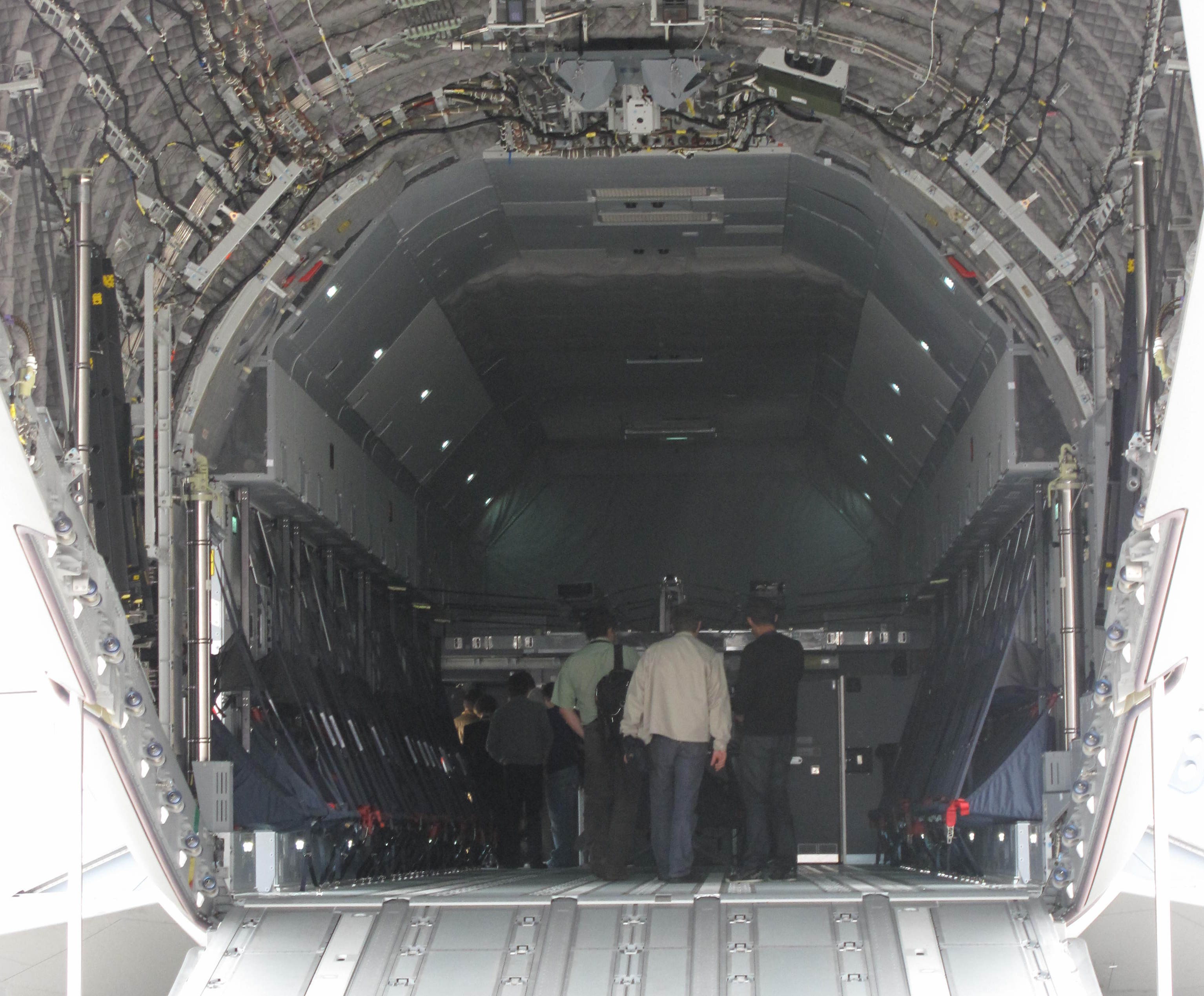 Loading ramp of Airbus A400M at the Paris Air Show 2013